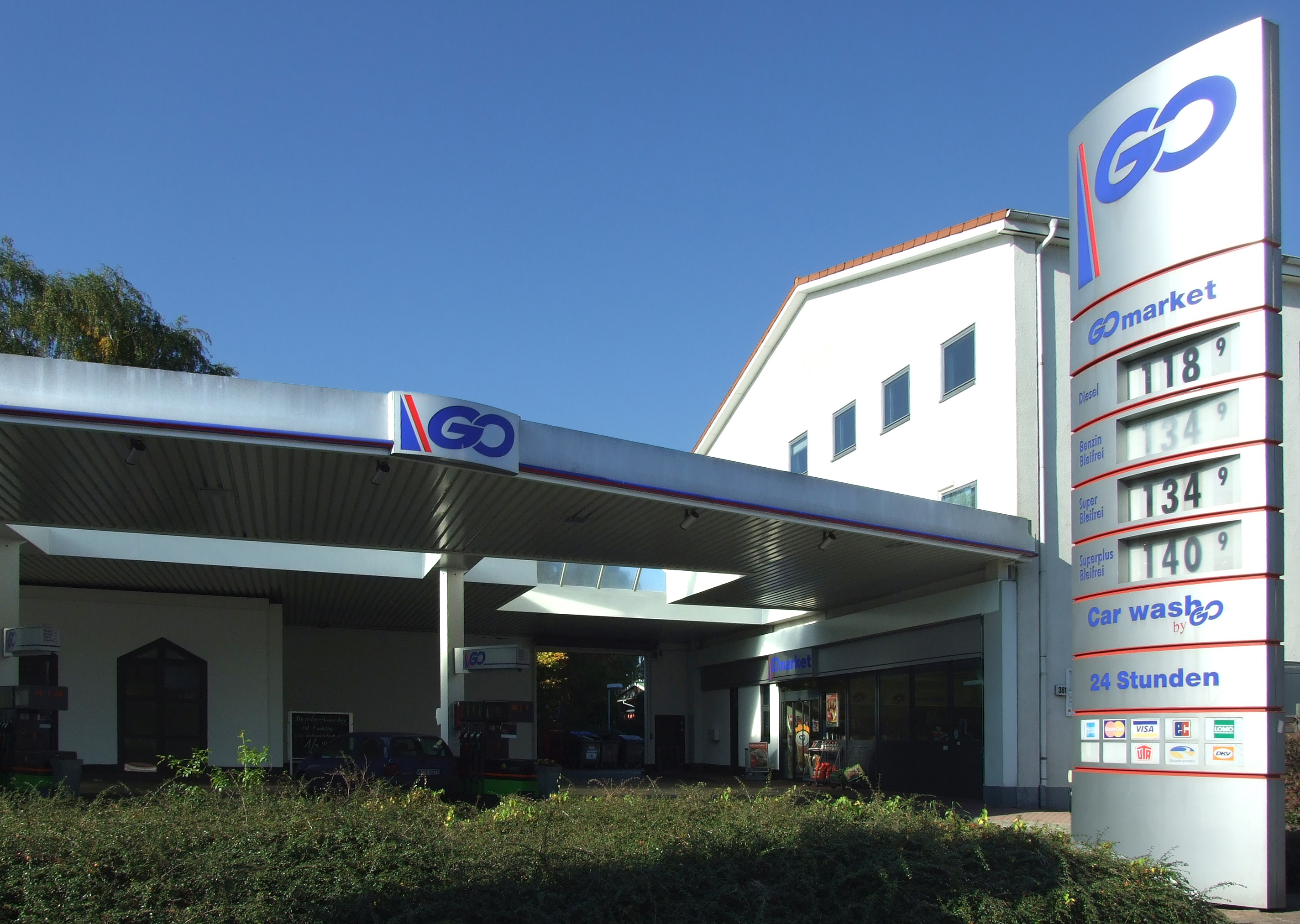 Go Petrol station